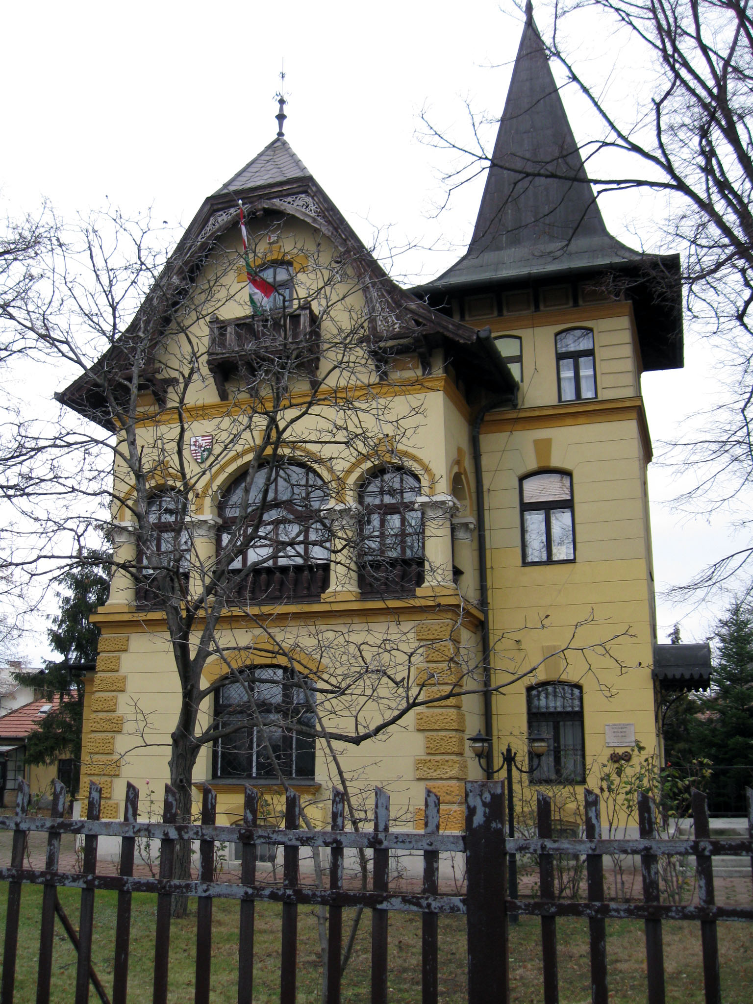 Renée Erdős Memorial House and Local Hictorical Collection, Budapest, 17. distr. Báthory str. 31., Hungary